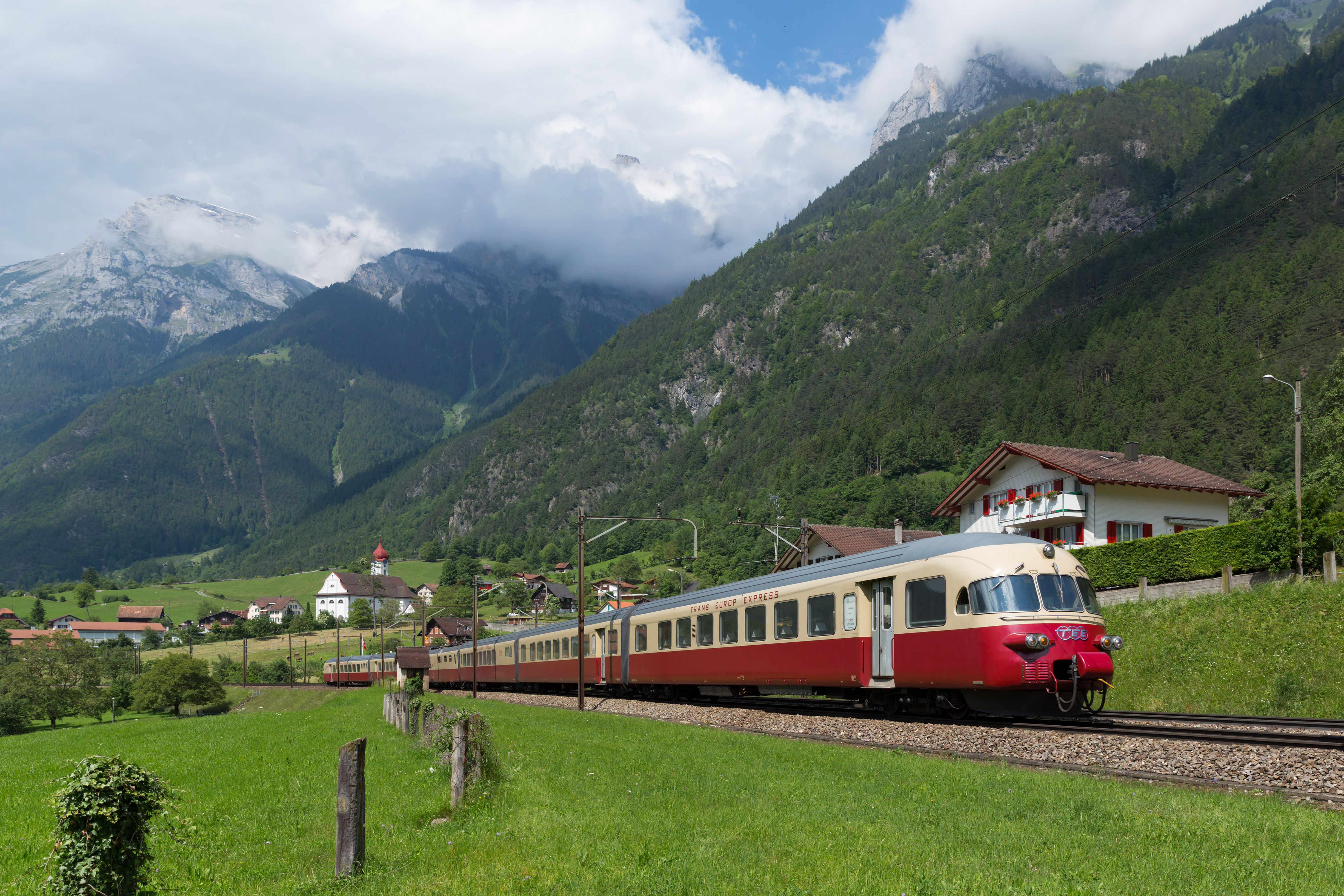 Preserved train set of type SBB RAe TEE II, the "Trans Europ Express" type, is headed down towards Erstfeld. Pictured in Silenen, Switzerland. The five sets of this class were in regular use (on TEE service) from 1961 to 1988.